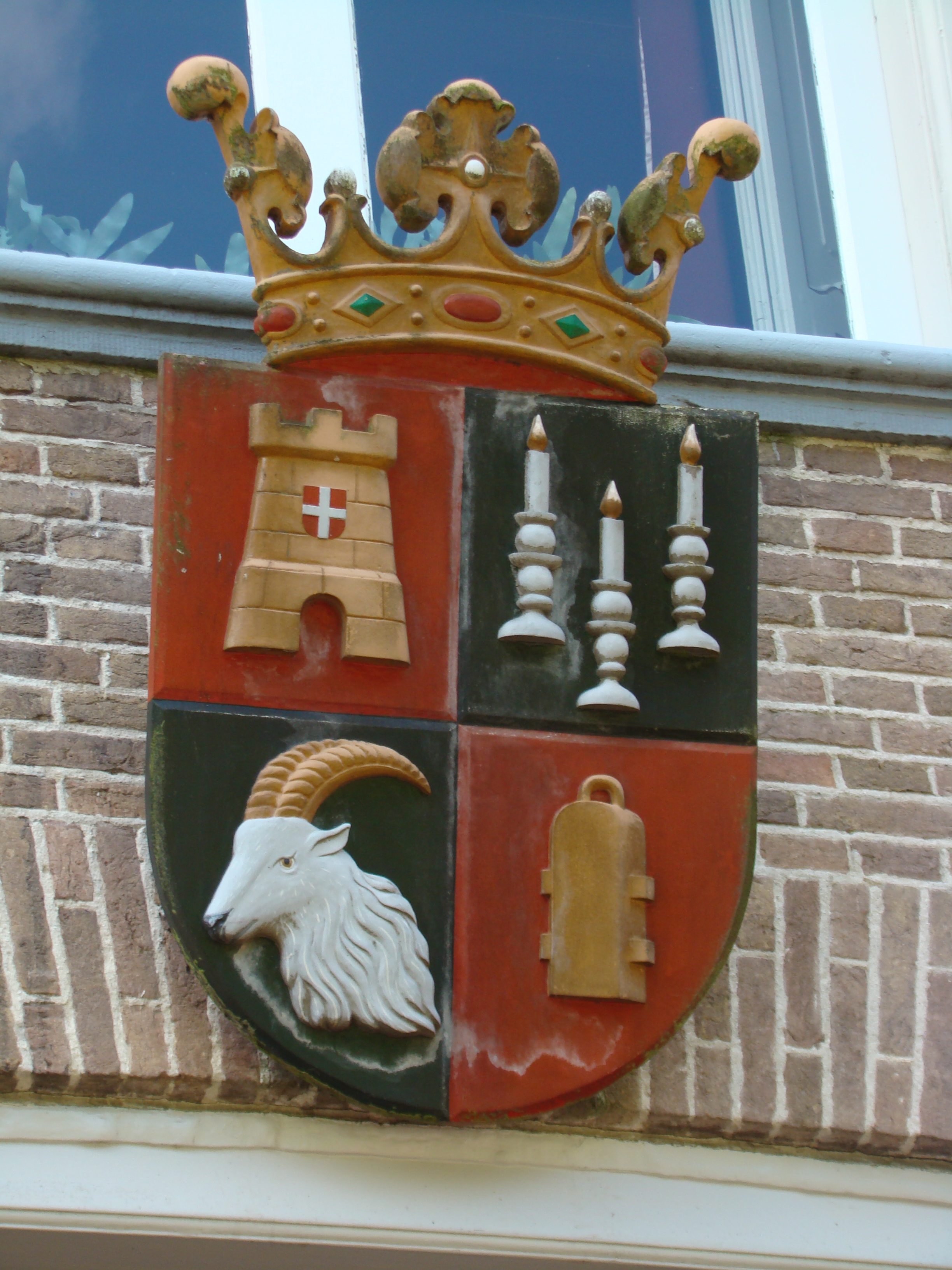 Impressions of Vollenhove